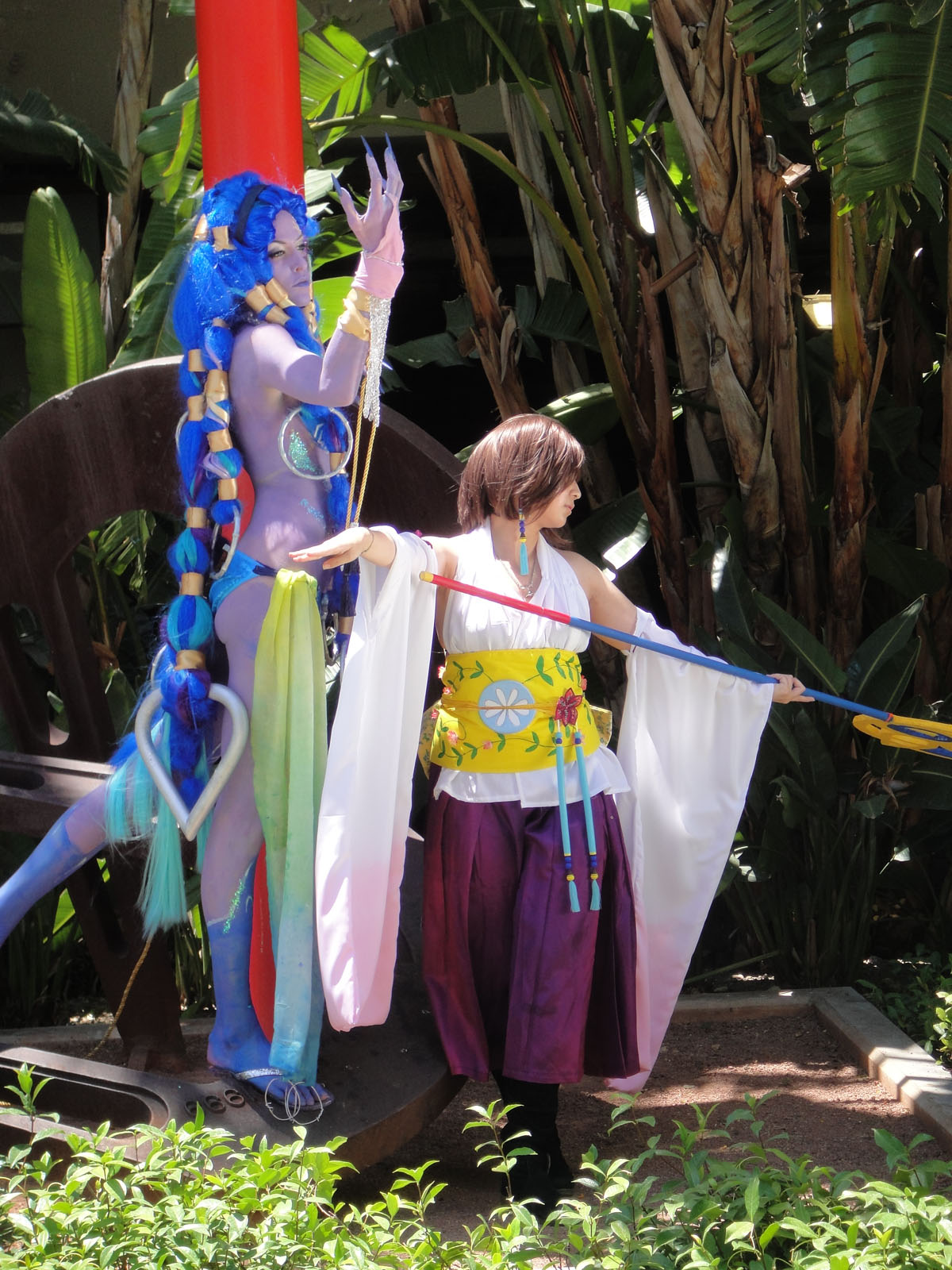 photo 2011 taken by Doug Kline Taken on July 2, 2011 Dowtown Carrier Annex, Los Angeles, CA, US Sony DSC-T900